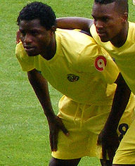 Villarreal starting XI posing before a peseason match at Wigan Athletic.